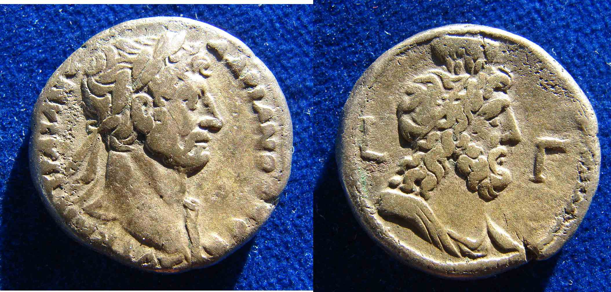 Tetradrachm, D. = 23 mm, 12.38 g Billon . Publius Aelius Traianus Hadrianus Augustus, 117- 138 Laureate draped head r. / Date (year 3) divided by Turreted bust of Serapis r. Dattari 1455. The legend on the obverse of this coin relates to Hadrian. The head of this coin resembles more Trajan than Hadrian. That may have something to do with slow communication at that time between Rome and Alexandria. Condition: Nice FINE.